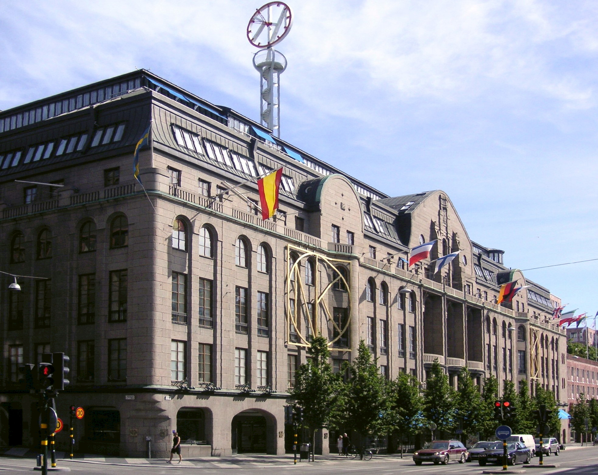 The department store Nordiska Kompaniet (colloquially "NK", and literally meaning "The Nordic Company") in Stockholm, Sweden. The company was established in 1902 and the building constructed in 1915.